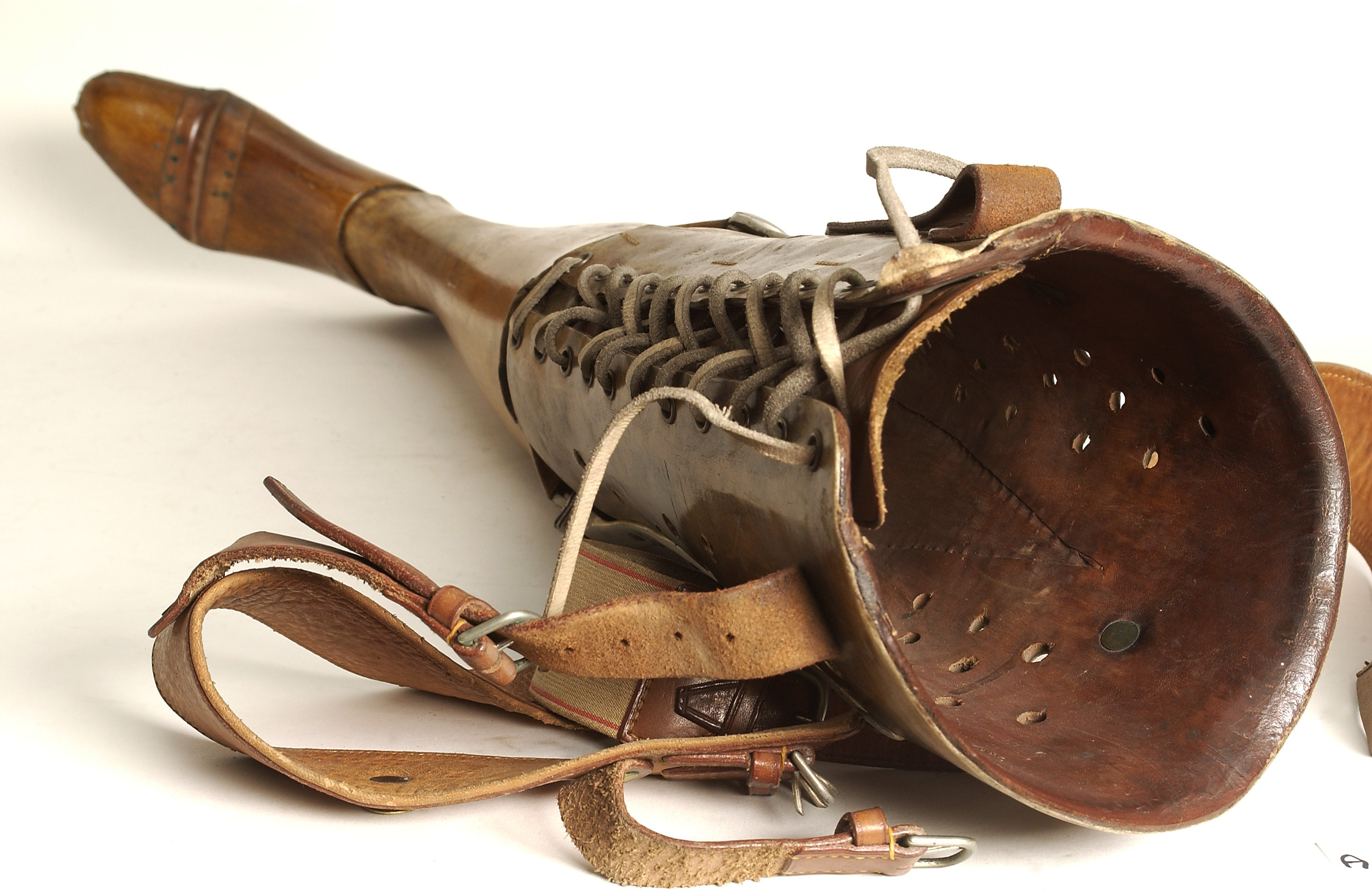 Medicine Man Wellcome Images Keywords: Artificial Limbs